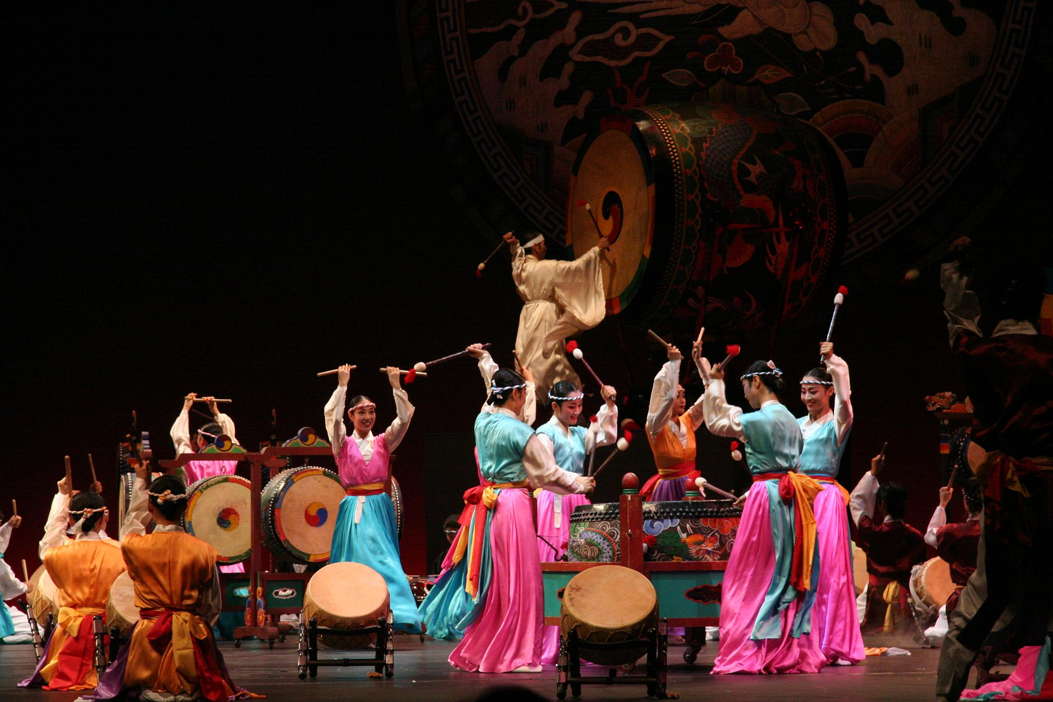 The scene of the drum dance titled "Grand Drum Ensemble" performed by the National Dance Company of Korea for the World Library and Information Congress took a place on August 22 2006 at Sejong Center, Seoul, South Korea More information in Korea